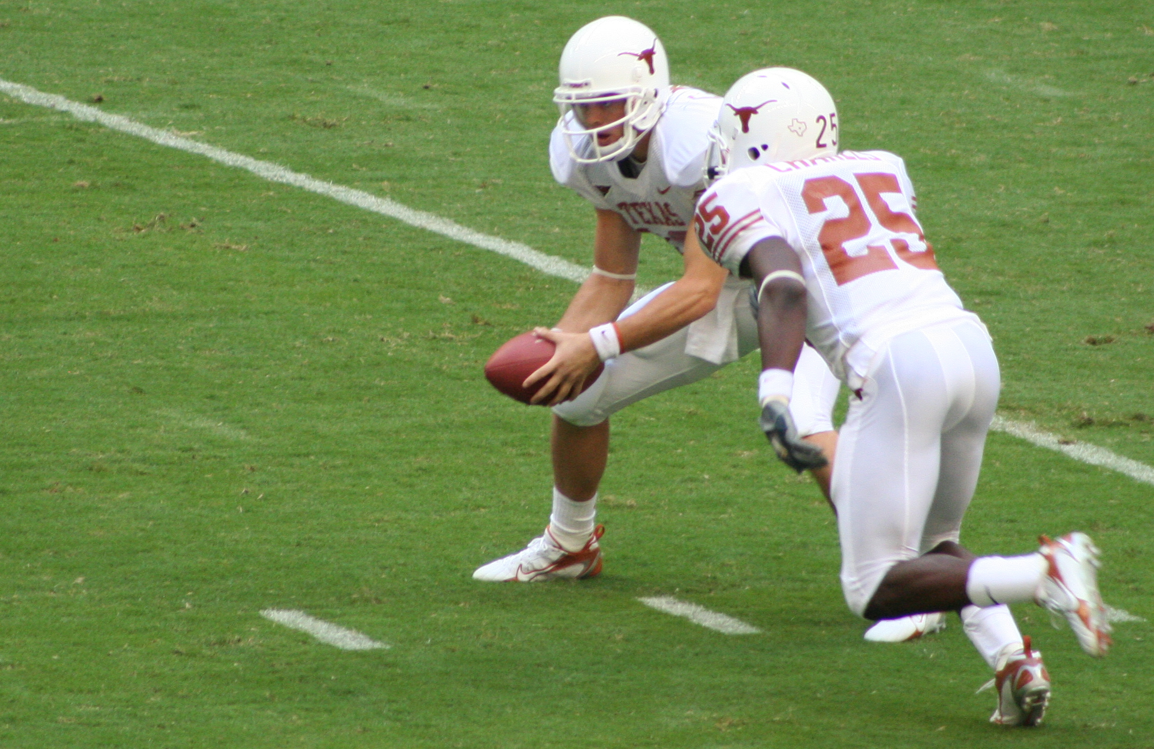 Colt McCoy and Jamaal Charles of the 2006 Texas Longhorn football team vs Rice.